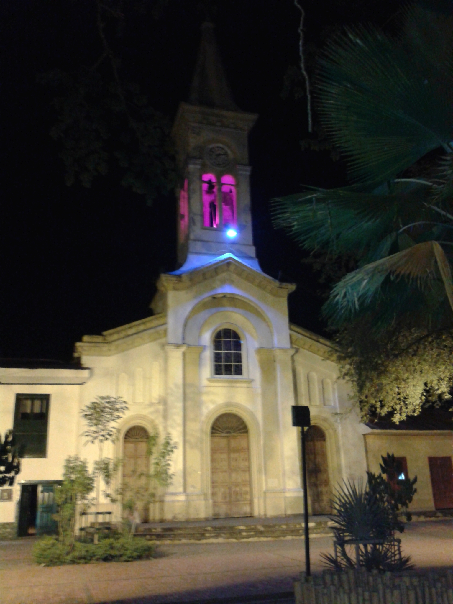 The church of Nuestra Señora Del Rosario De Chiquinquira (Our Lady of the Rosary of Chiquinquira